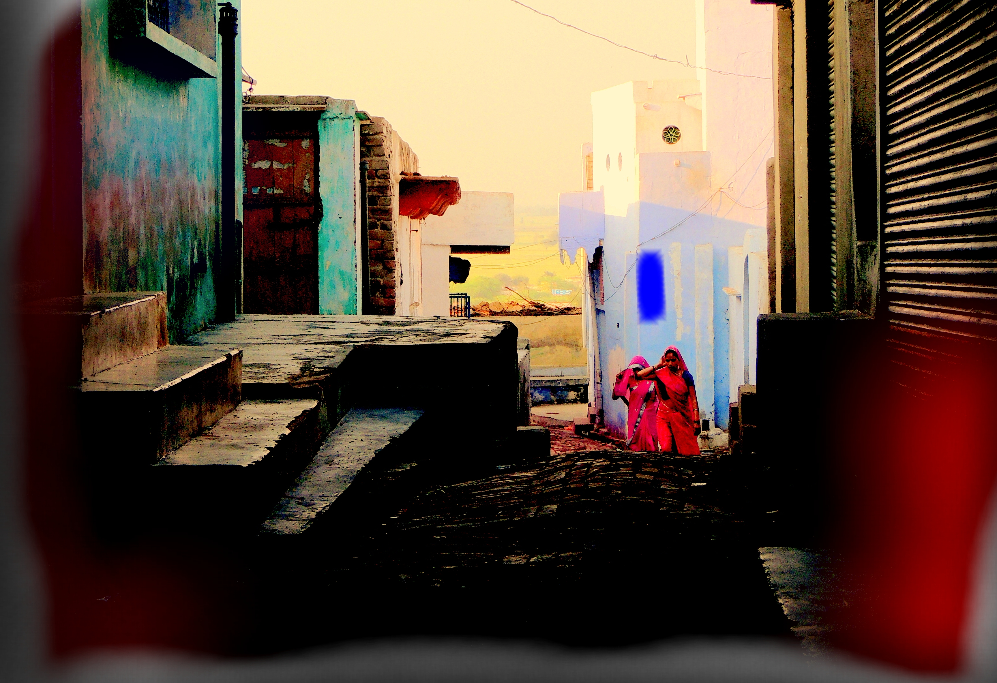 नंदगाँव की एक गली